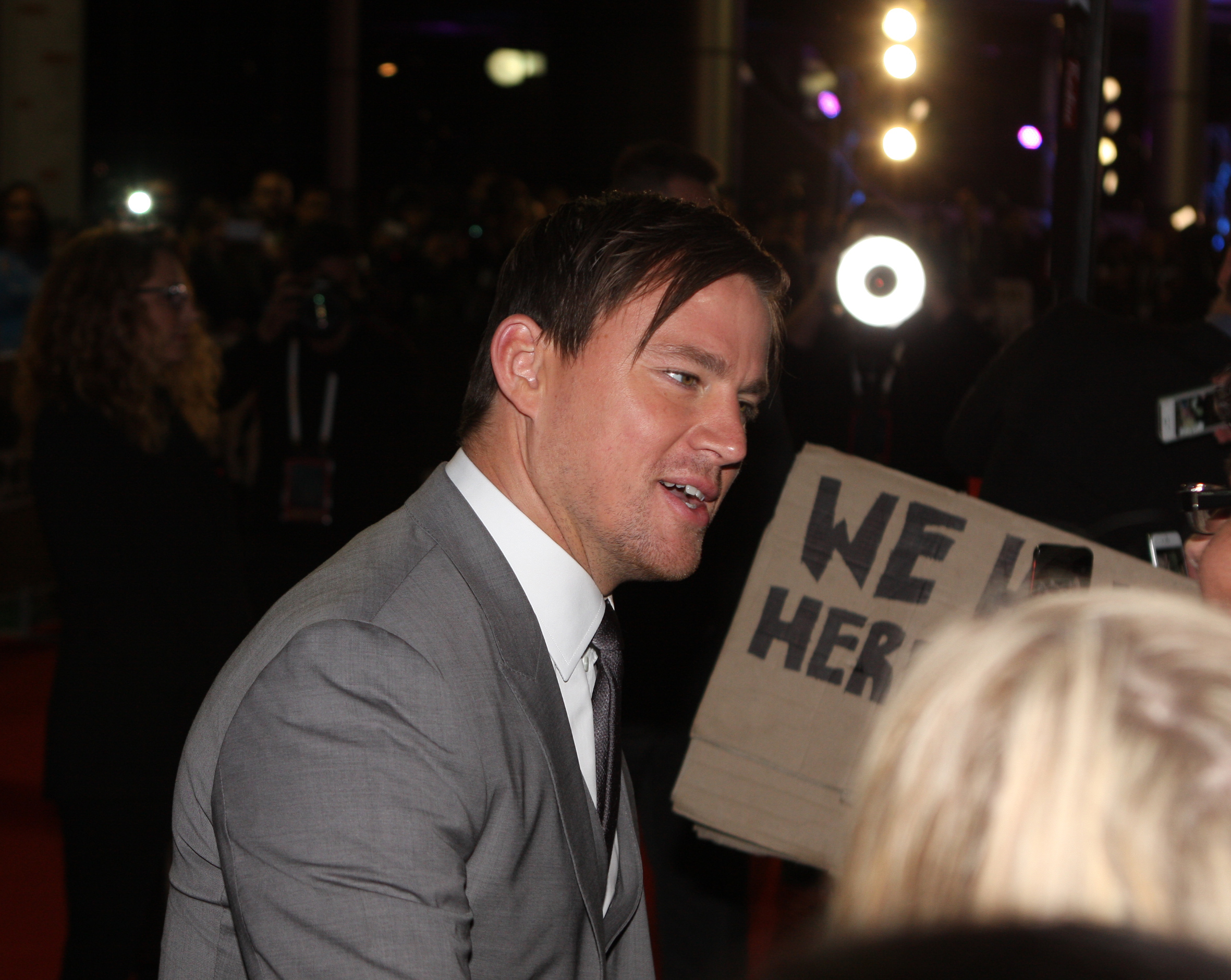 Channing Tatum Warner Bros. & Hoyts red carpet Arena Premiere of Magic Mike XXL